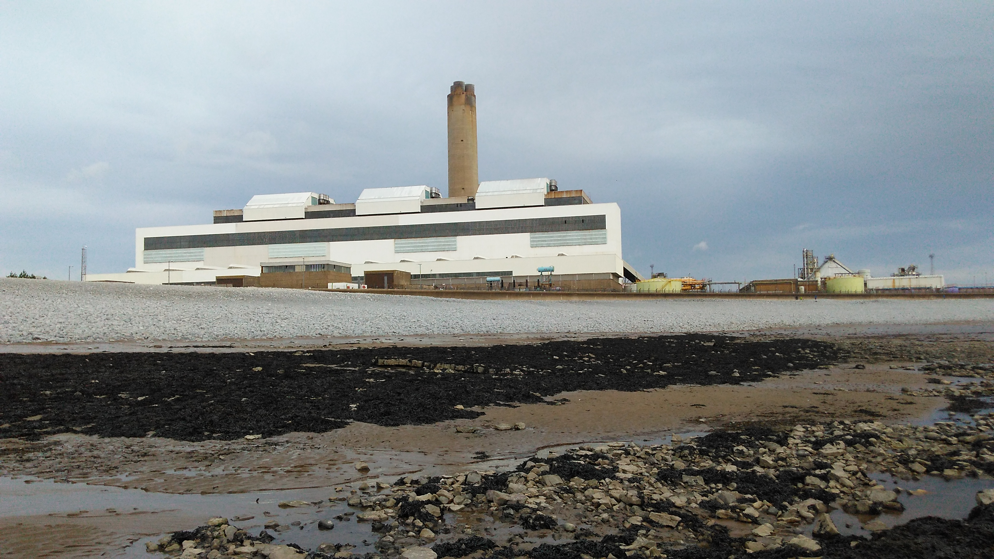 A photograph of Aberthaw B Power Station taken from the beach in front of it. See Aberthaw power stations.